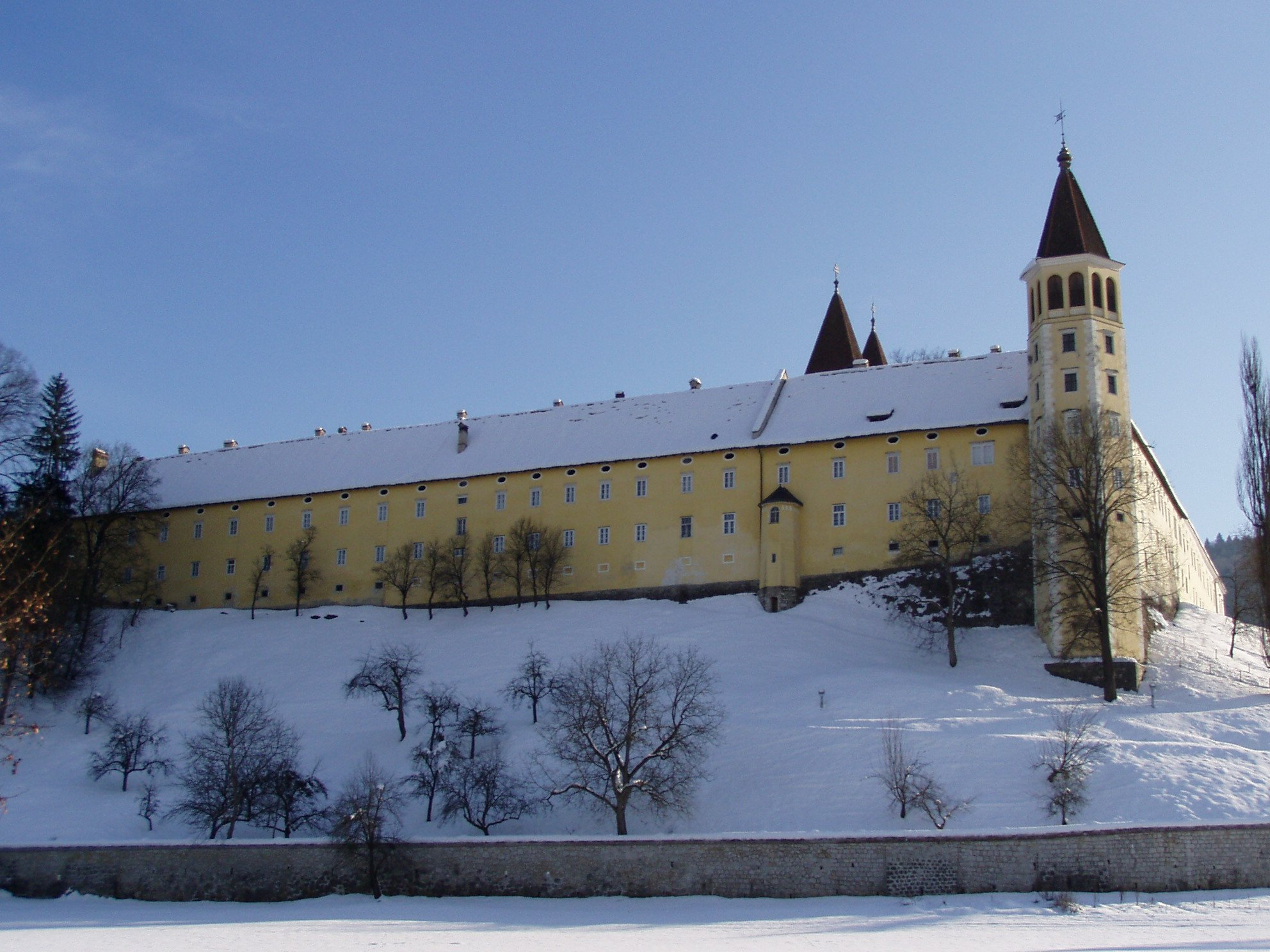 Benedictine Monastery of Sankt Paul im Lavanttal, Carinthia, Austria, view from norrh-east